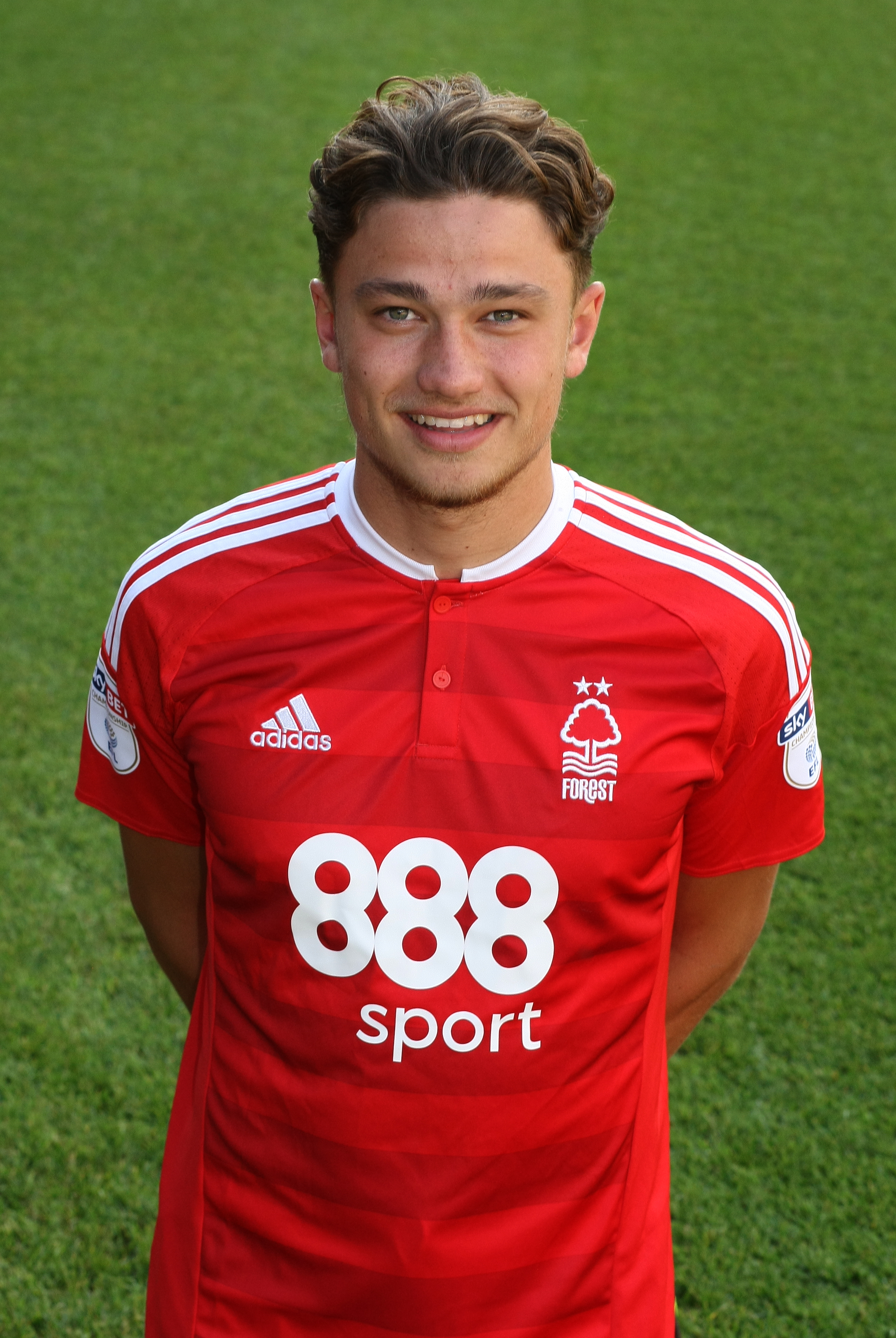 Matty Cash in Nottingham Forest kit, 2016